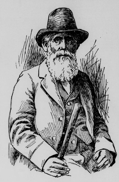 Sketch of Isaac Brock, alleged to 110 years old in 1898.